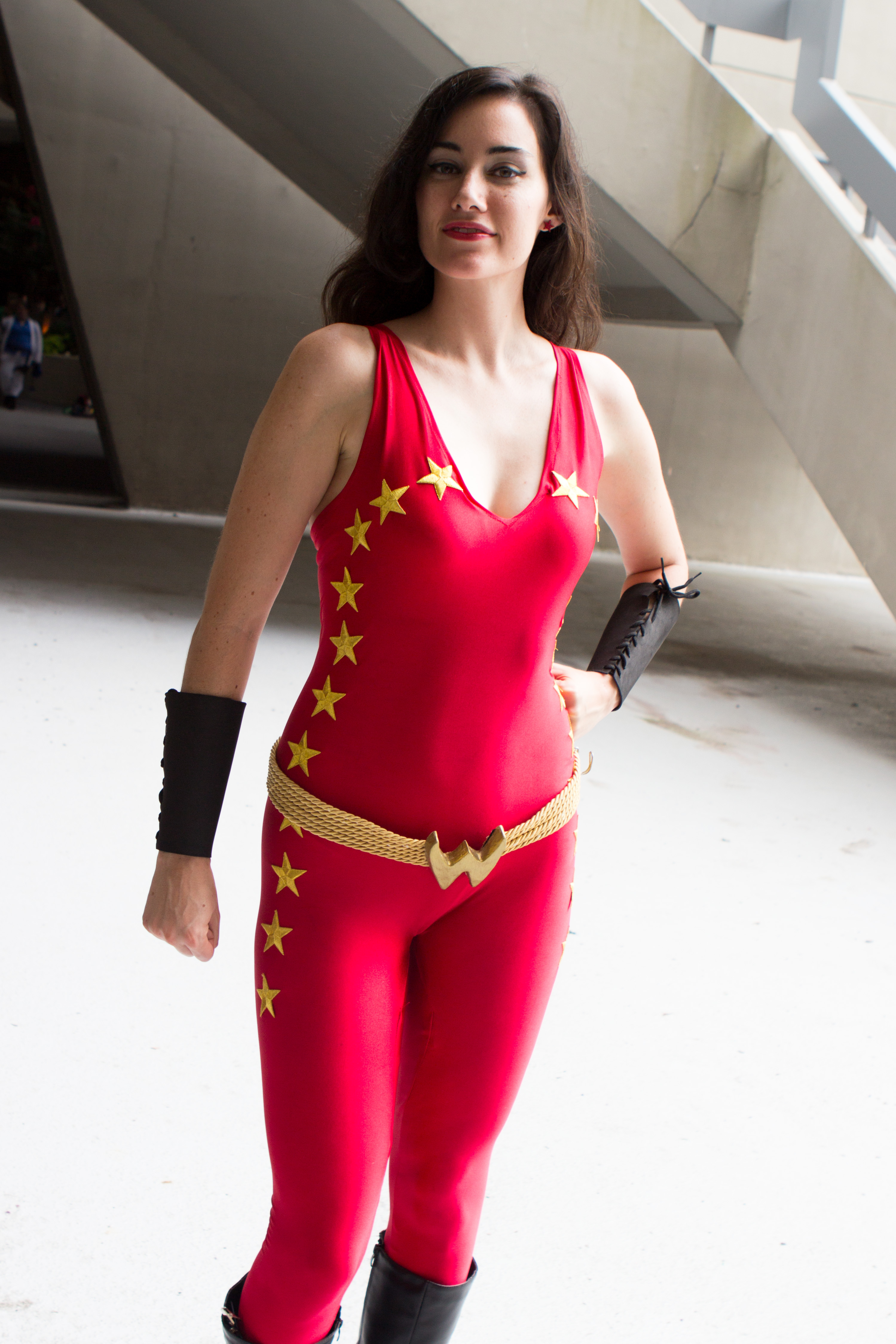 Dragon*Con 2013 Cosplay at Dragon*Con 2013.